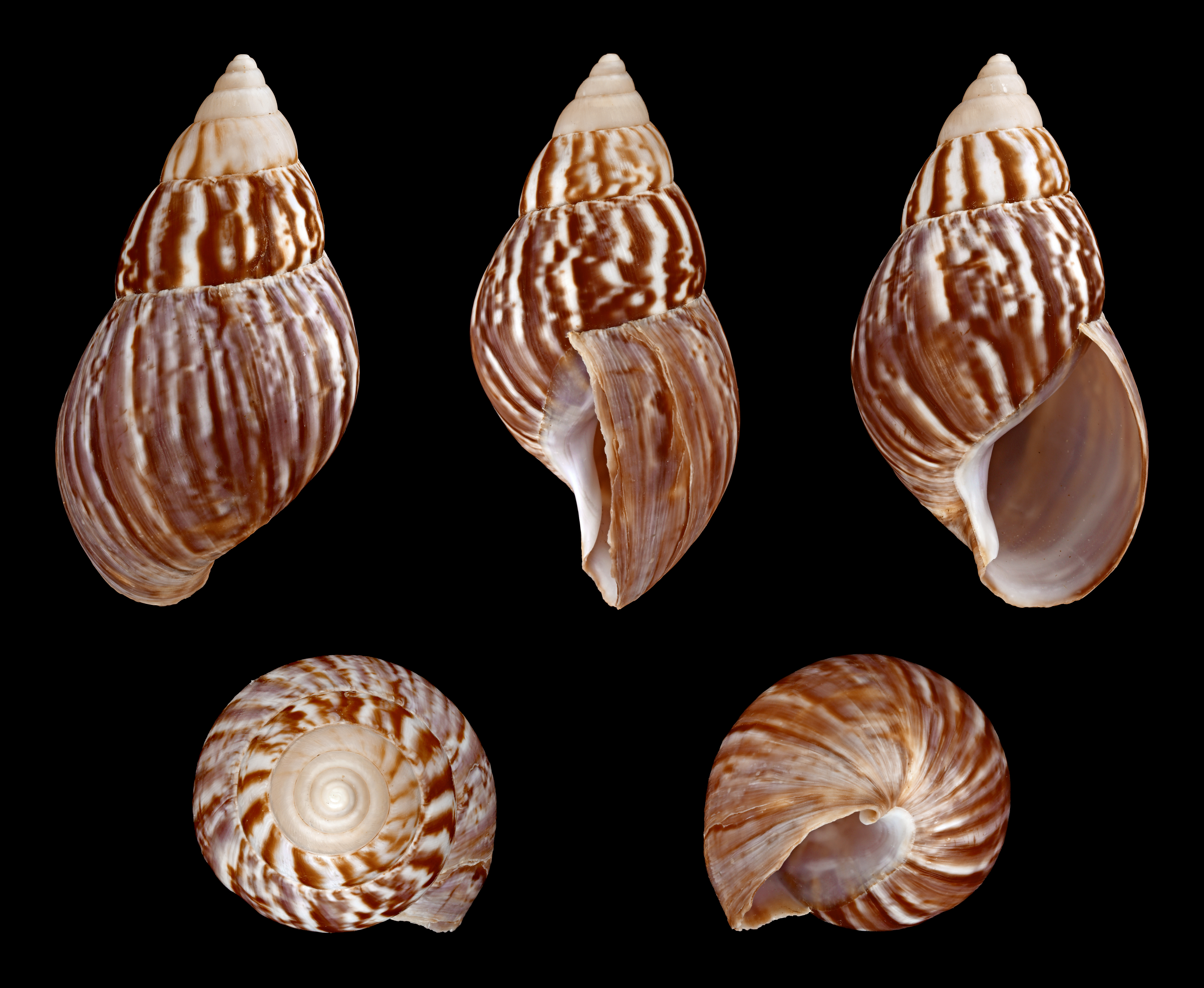 East African Giant Land Snail, Length 7.8 cm; Originating from East Africa; Shell of own collection, therefore not geocoded. Dorsal, lateral (right side), ventral, back, and front view.